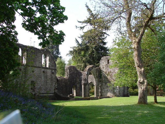 Inchmahome Priory Ruins